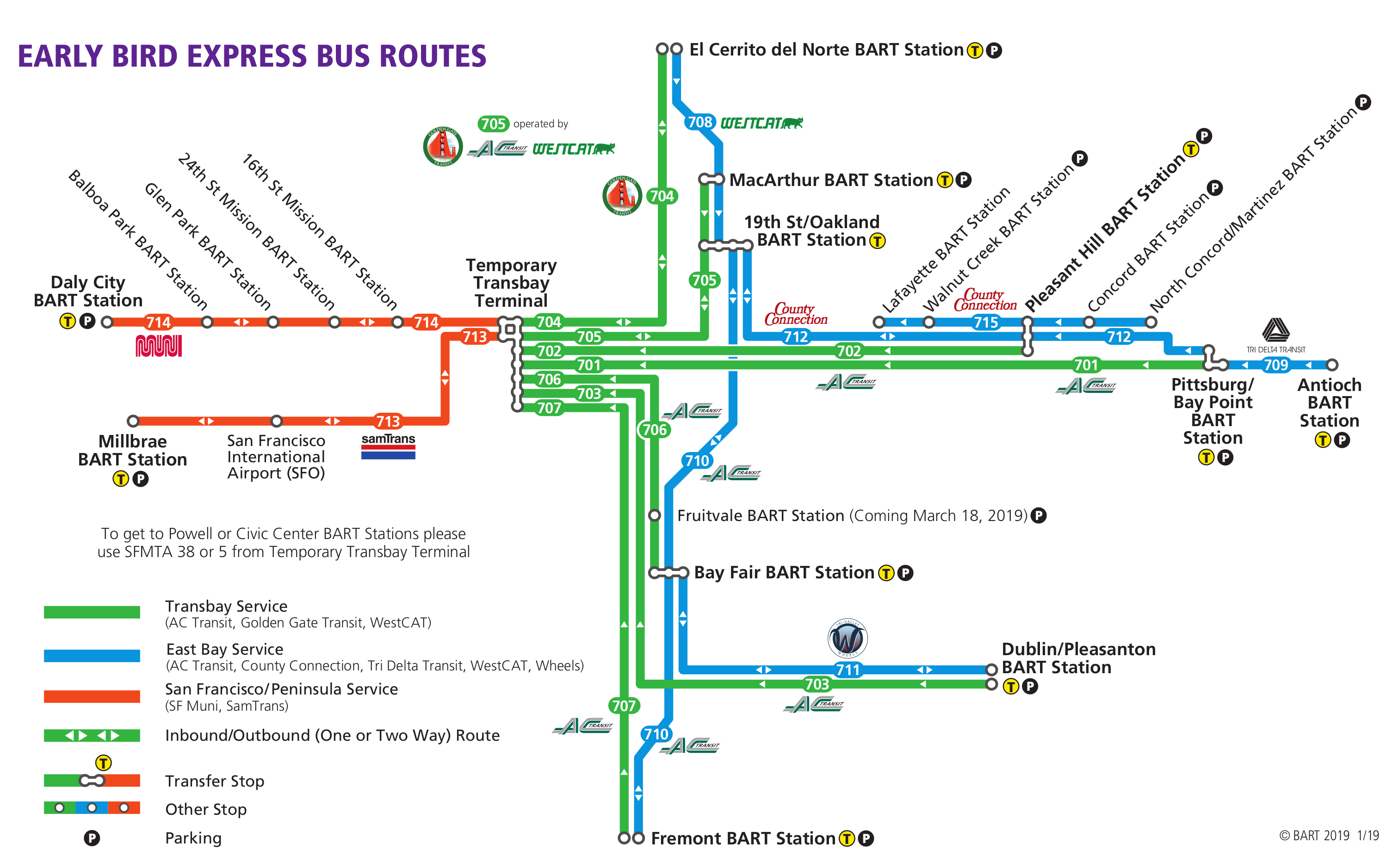 Map of Early Bird Express bus system effective February 11, 2019